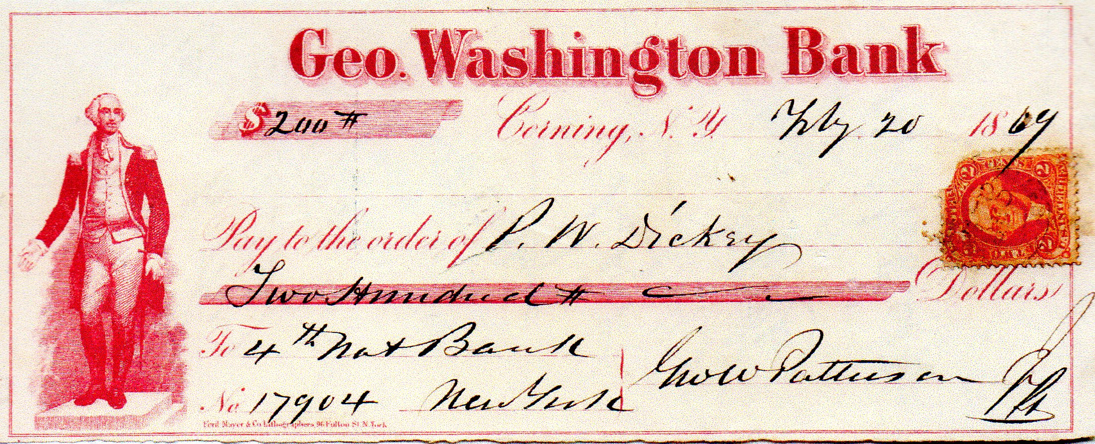 A bank note from the Geo Washington Bank written in 1869.